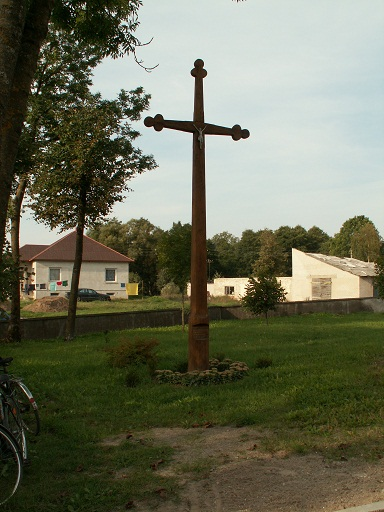 Jokūbavas, Kretinga district, LithuaniaLietuvių: Partizanų kryžius Jokūbavo šventoriuje, Kretingos rajonas, Lietuva